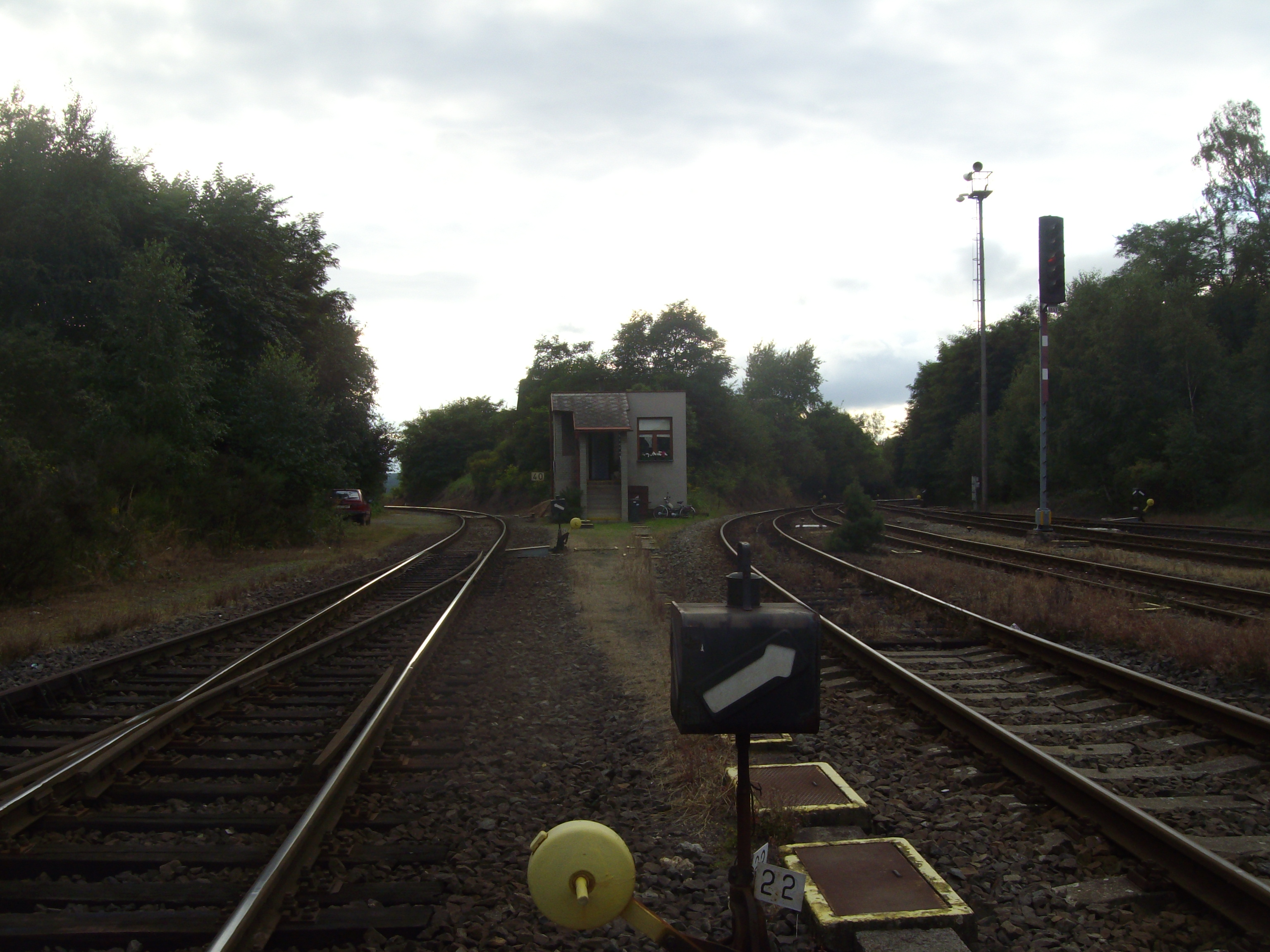 Railway crossing road Rakovník and Chomutov